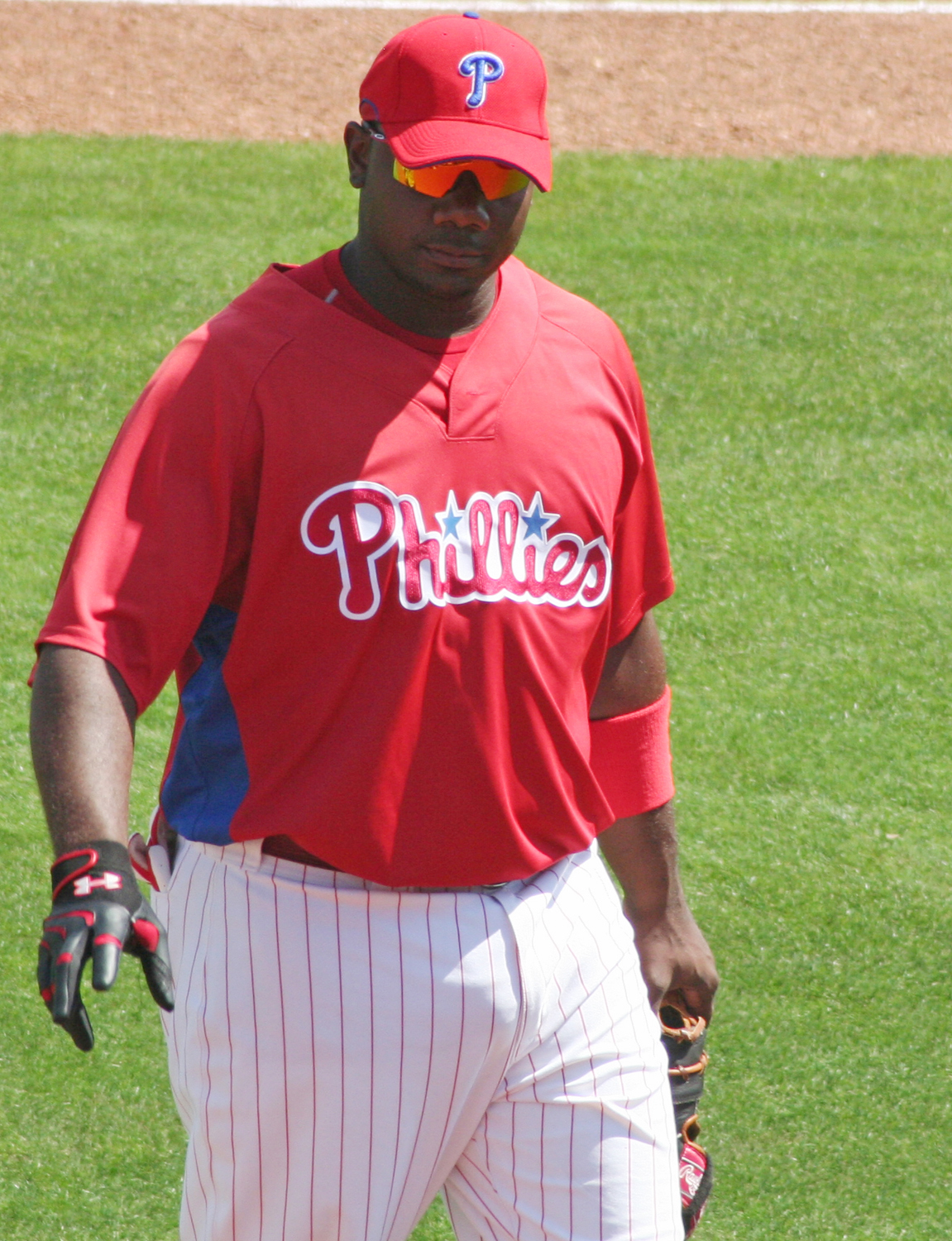 Photograph taken by Googie Man 02:47, 6 April 2007 . . Googie man . . 1151×1500 (1,295,094 bytes)